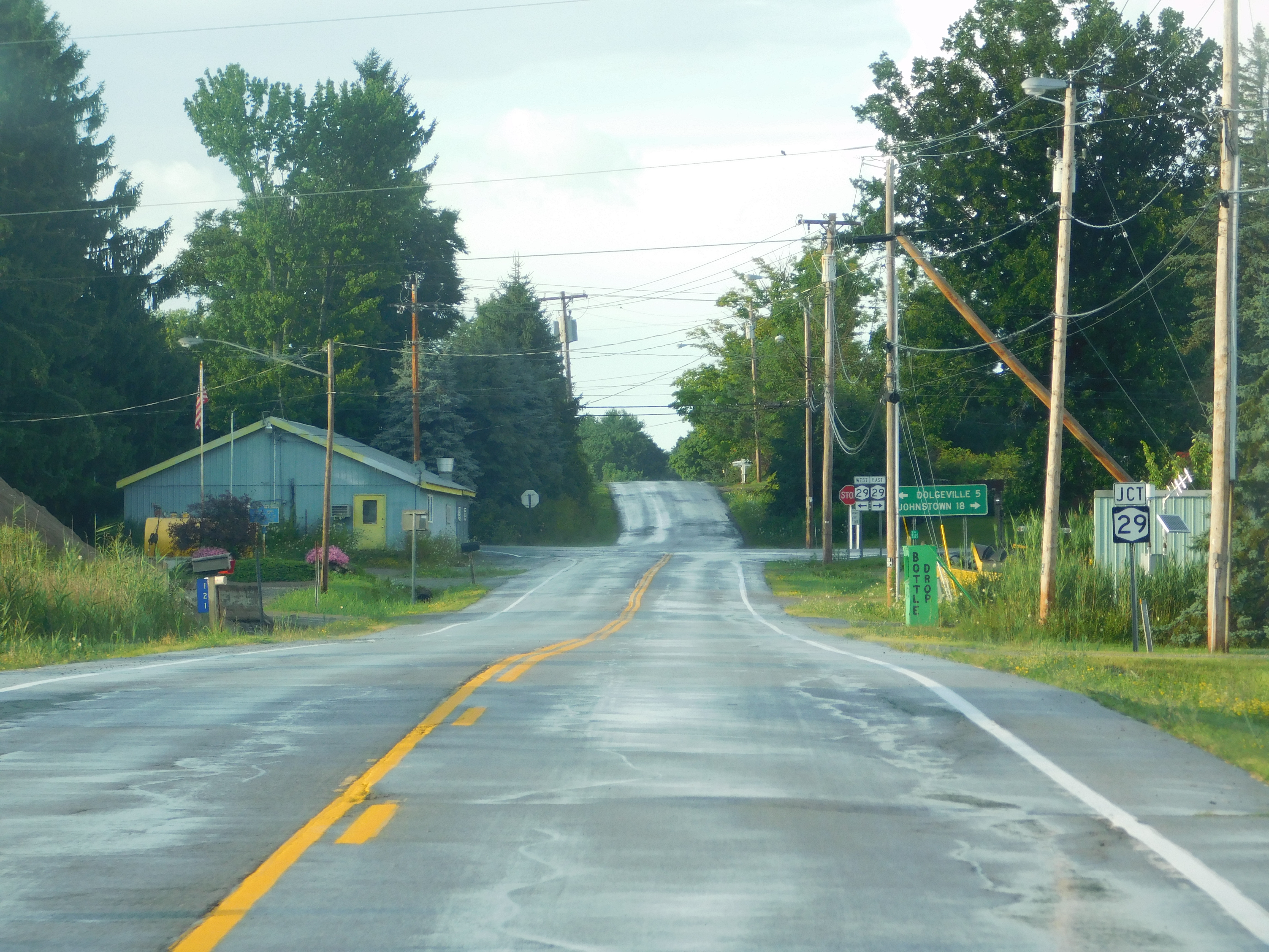 New York State Route 331 at New York State Route 29